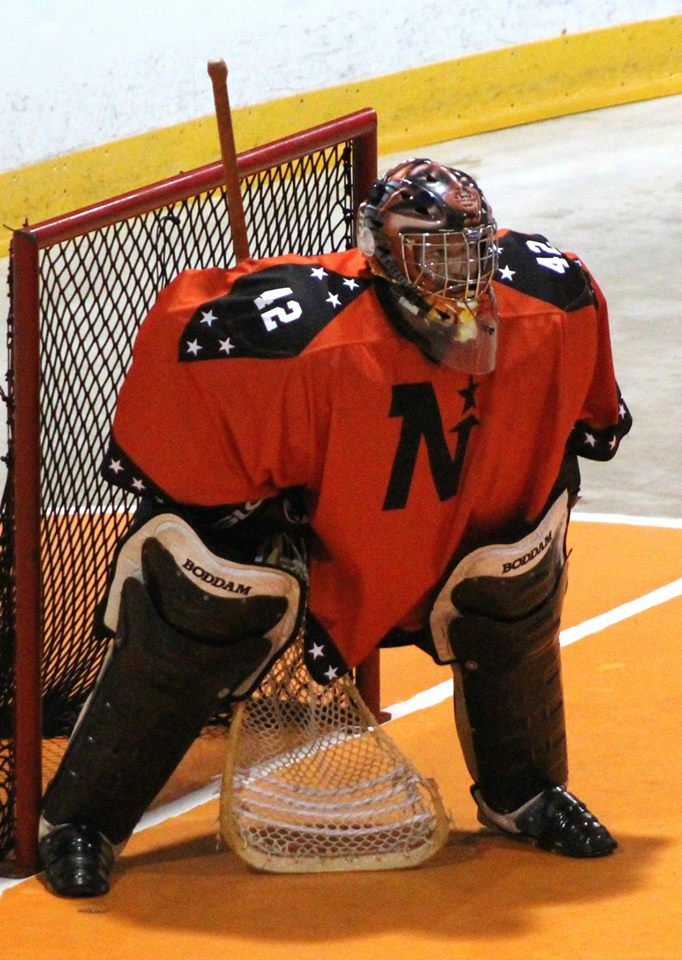 These images of Ontario Senior B Lacrosse Action action during the 2015 season are taken by Devan Mighton.